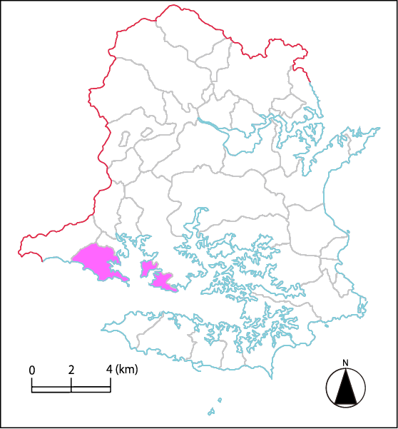 This is the map of Hamajimacho-Hamajima, Shima, Mie, Japan.